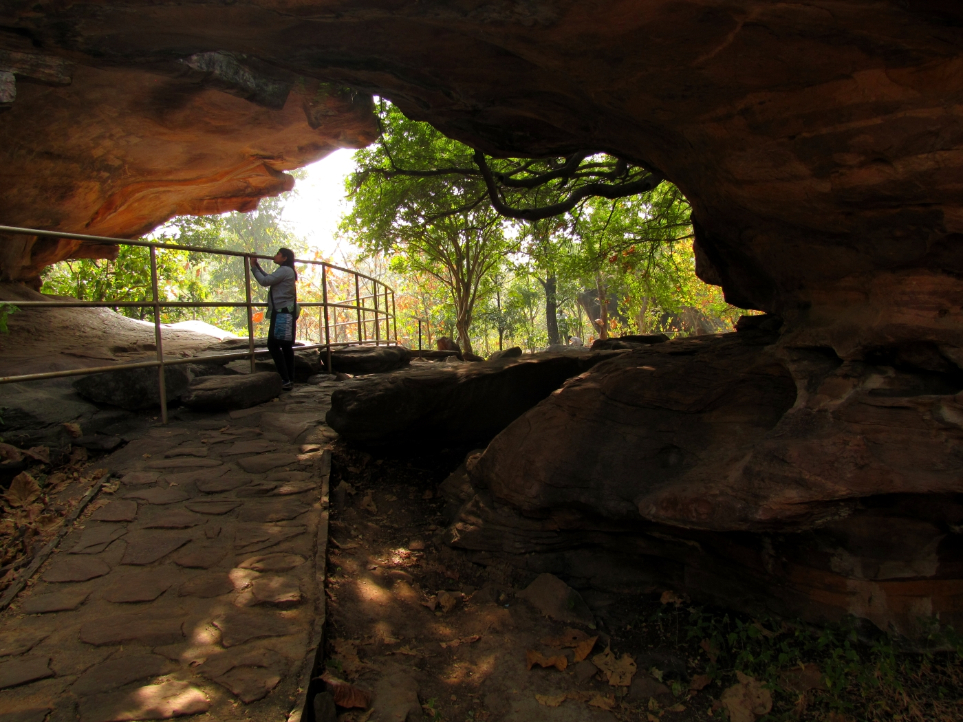 Bhimbetka rock shelters and caves are a UNESCO world heritage site consisting of over 750 caves and shelters over 10 kilometers and 7 hills. the archaeological site dates between 100,000 to 1,700 CE, with cave paintings that are estimated to about 30,000 years ago. The site is about 45 kilometers south of Bhopal, Madhya Pradesh.